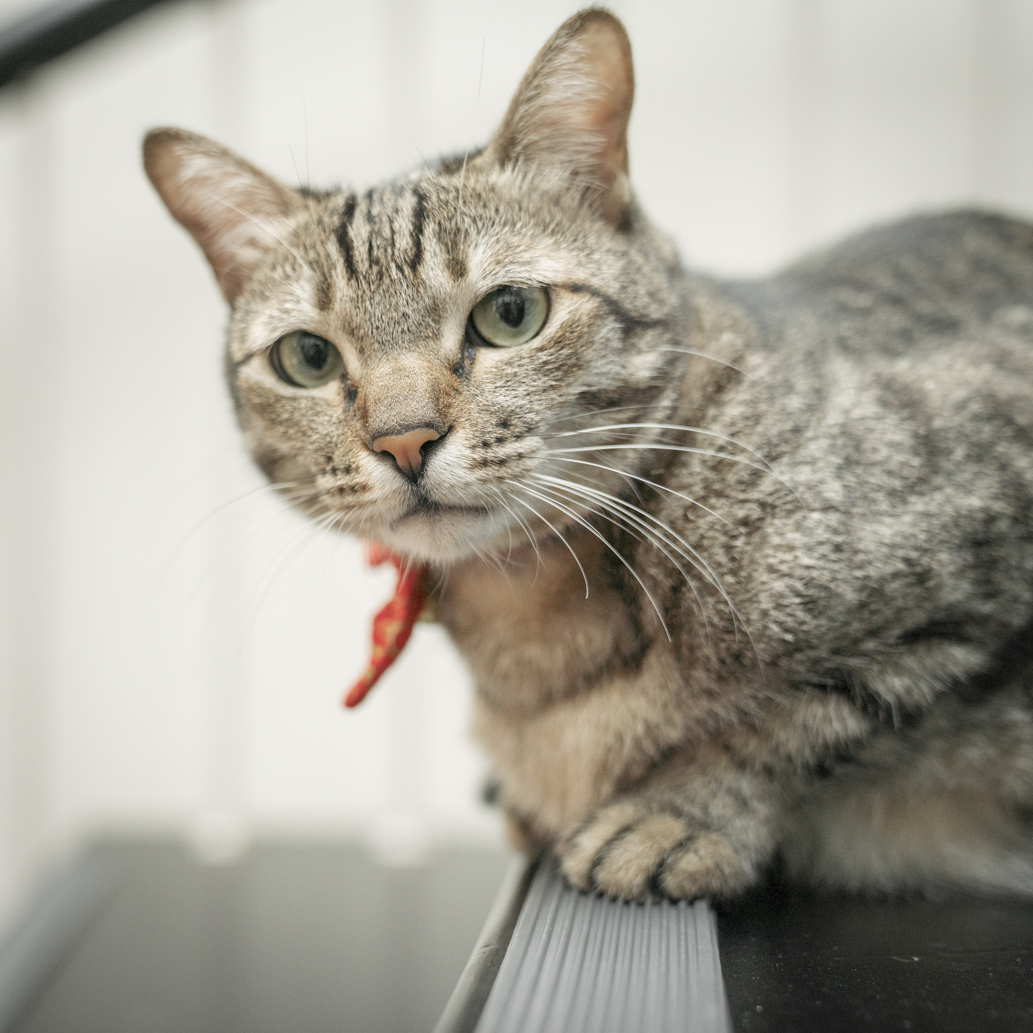 Official Photo by Mori / Office of the President